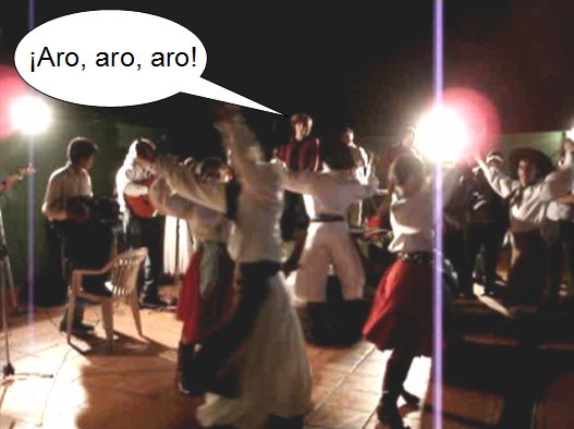 Argentina. Folklore dancing. "Aro aro aro" is a shout to stop dancing and music, briefly, to drink and say jokes.